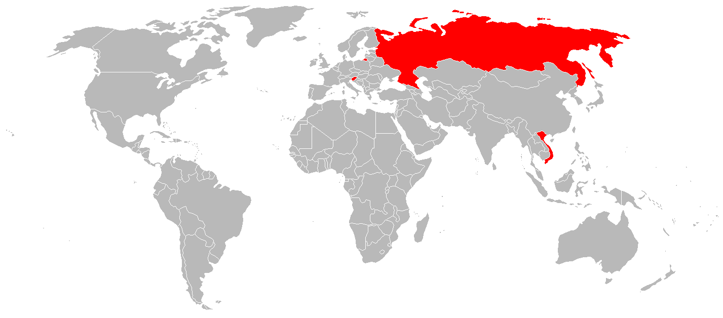 Description World map of operators of the Svetlyak class patrol boat Date4 February 2012SourceOwn work, derivative of image:BlankMap-World.png.AuthorVuhoangsonhnPermission (Reusing this file) All rights released